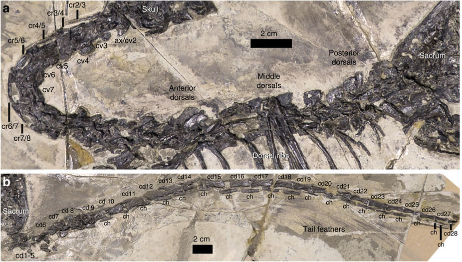 Figure 3: Vertebral column of Jianianhualong tengi holotype DLXH 1218. (a) Presacral vertebrae. (b) Caudal vertebrae. Scale bar, 2 cm. ax, axis; cd, caudal vertebra; ch, chevron; cr, cervical rib; cv, cervical vertebra.